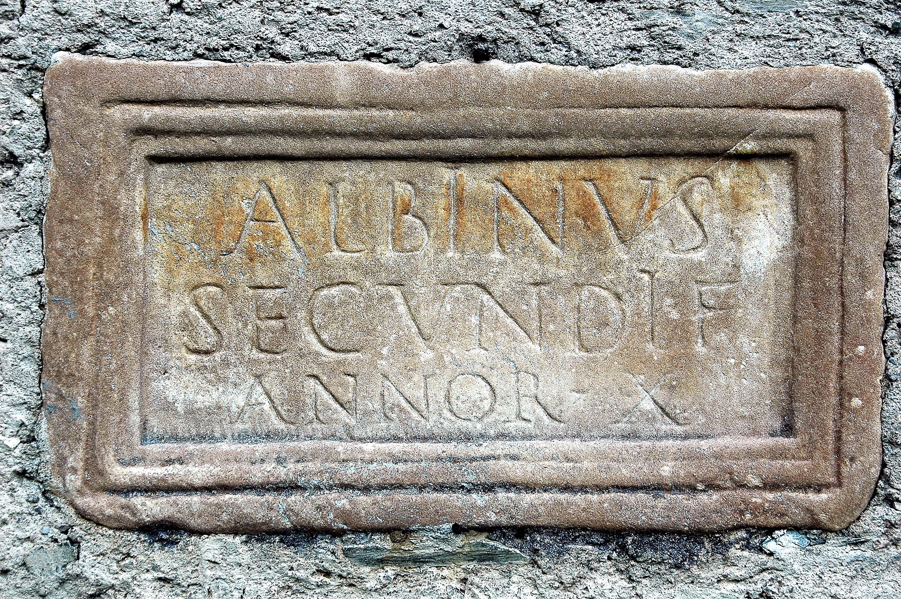 Albinus inscription stone, church of Nussberg, Moosburg, Carinthia, Austria